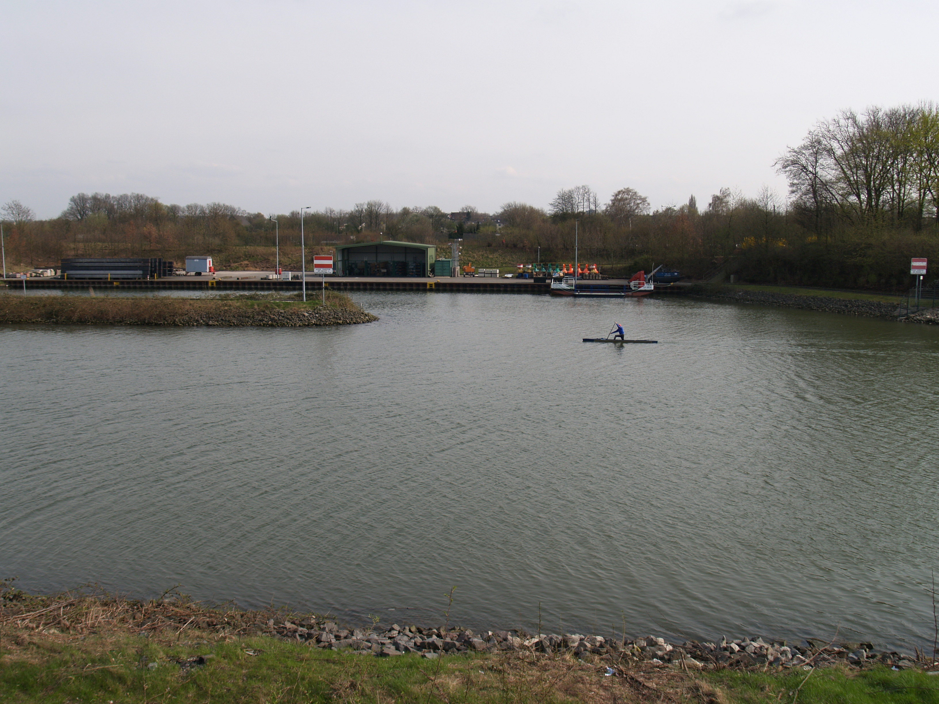 Port WSV at Rhein-Herne-Kanal the port of canal authority (Wasser- und Schifffahrtsverwaltung)